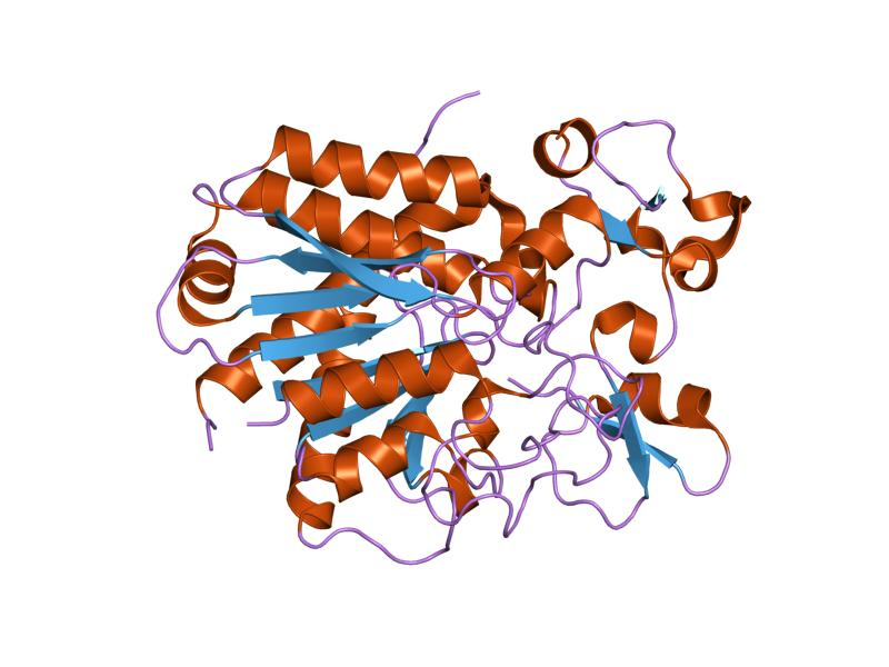 Cartoon representation of the molecular structure of protein registered with 1zli code.